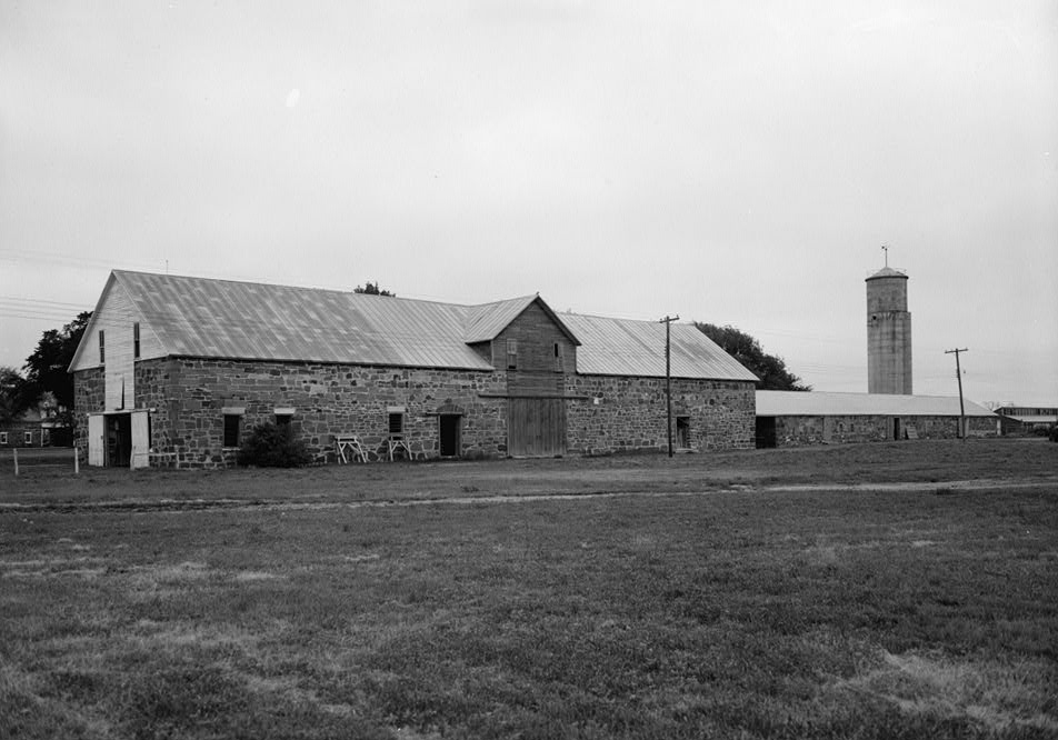 Quartermaster's store building at Fort Larned, a historic fort and current National Historic Site near Larned, Pawnee County, Kansas, United States. Built in 1860, the fort was declared a National Historic Site on 31 August 1964 and added to the National Register of Historic Places on 15 October 1966.